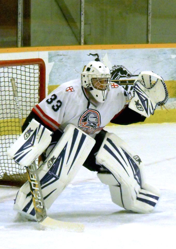 This photo was taken by Devan Mighton during the 2014-15 WECSSAA season.